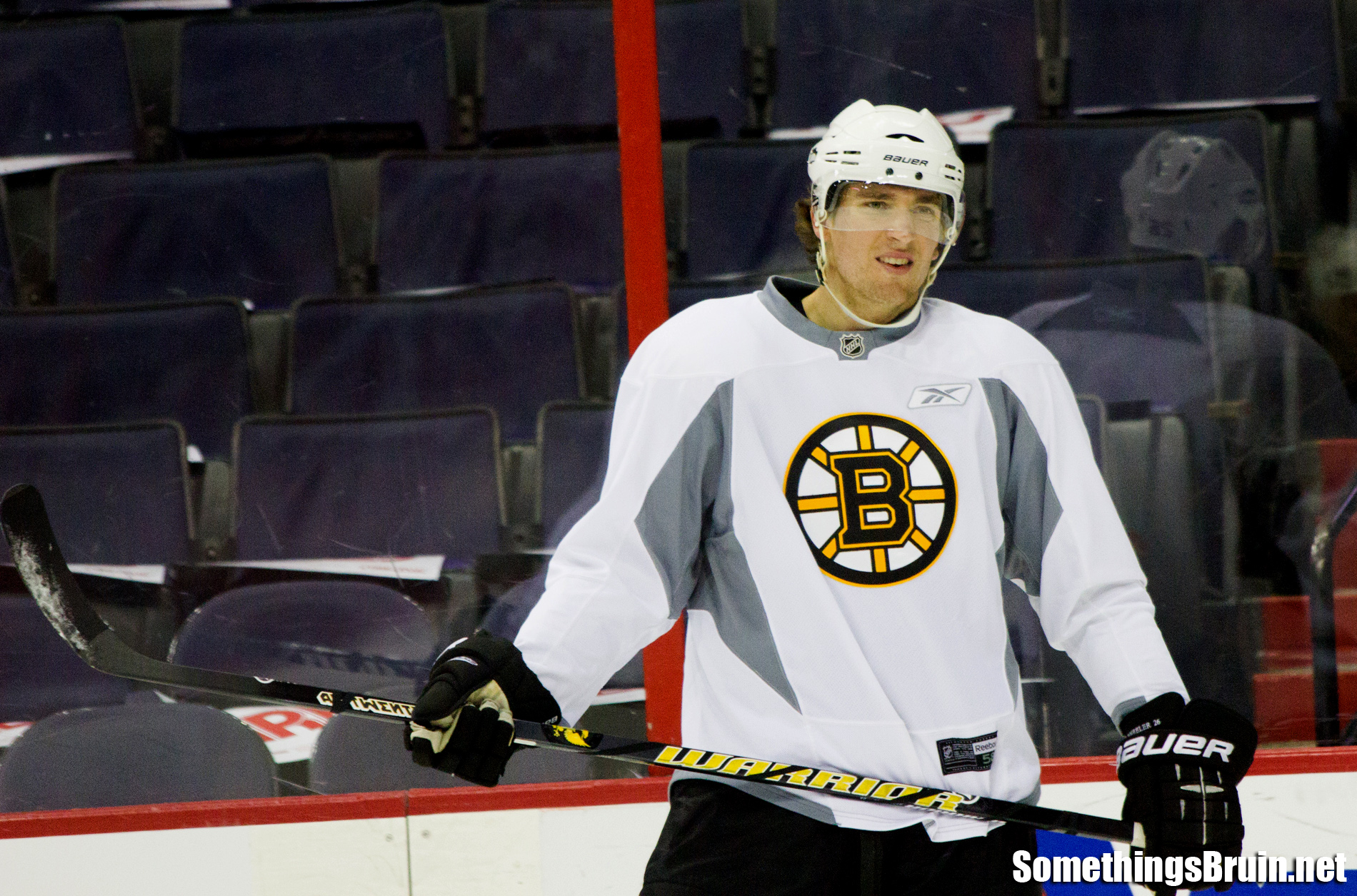 Following Sarah Connors sarah_connors Member since 2008 Taken on November 5, 2010 Canon EOS REBEL T2i Bruins morning skate in DC (Set: 22) This photo also appears in sarah_connors' photostream Tags: blake wheeler Boston Bruins NHL hockey icehockey